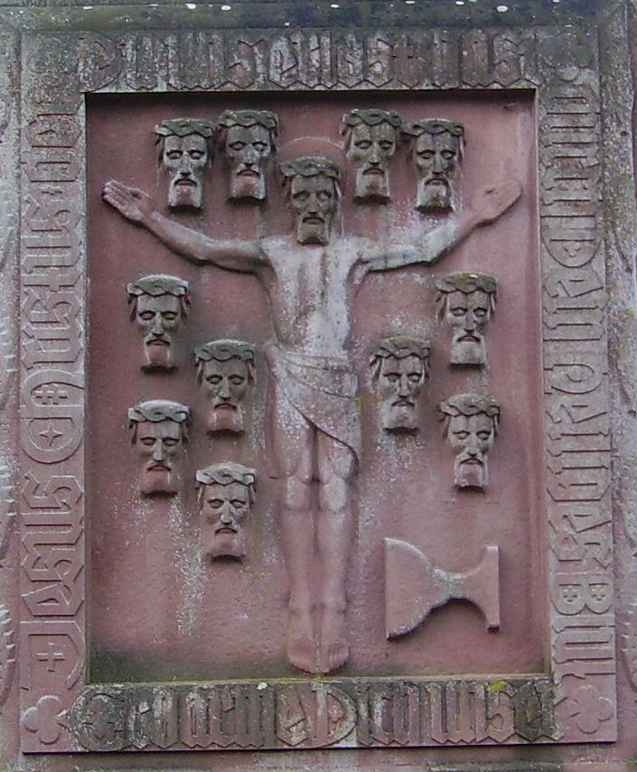 basilica of Walldürn, Germany